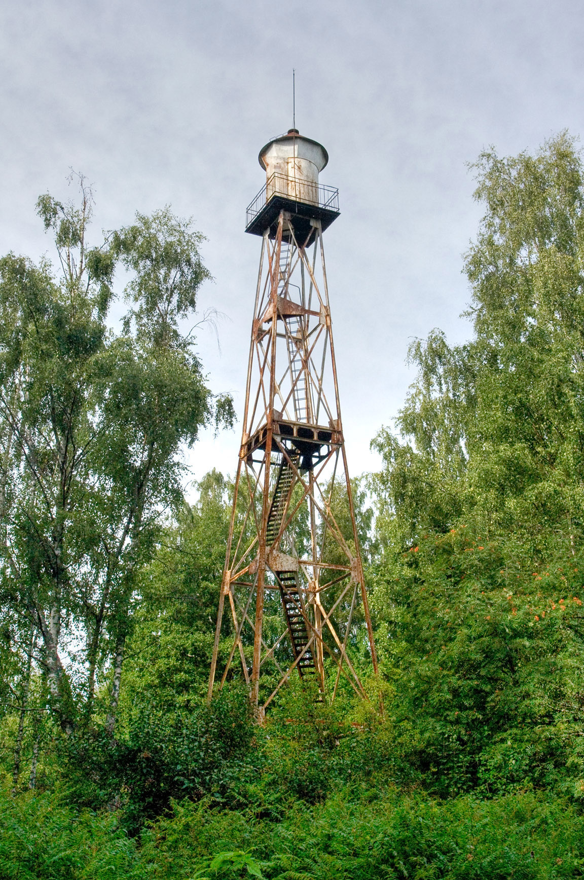 Hara daymark